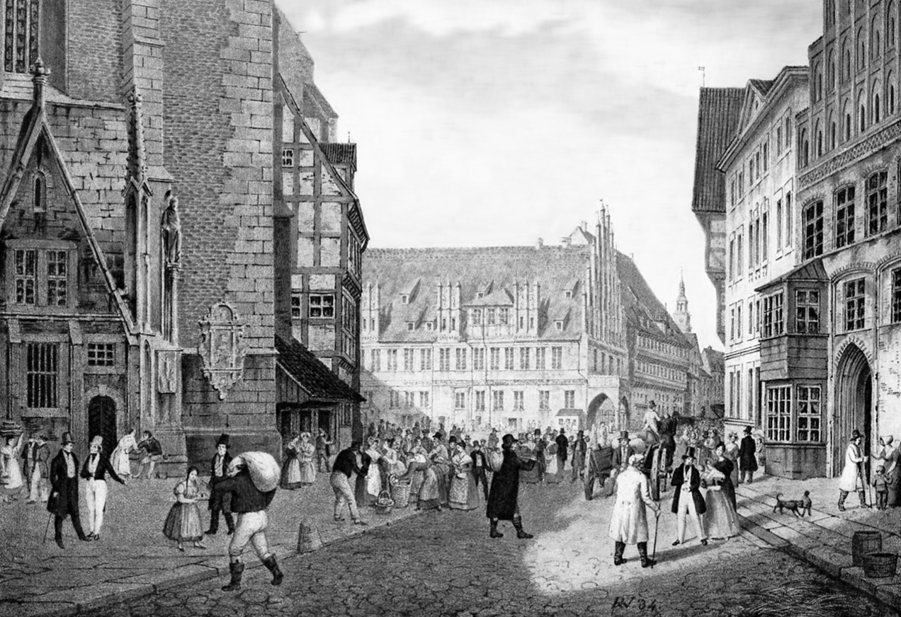 The Market 1834 in Hanover. Lithograph by Rudolf Wiegmann.